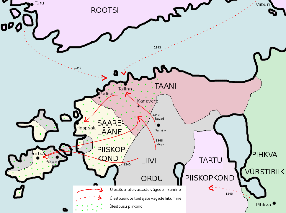 Saint George's Night Uprising (1343-1345) map